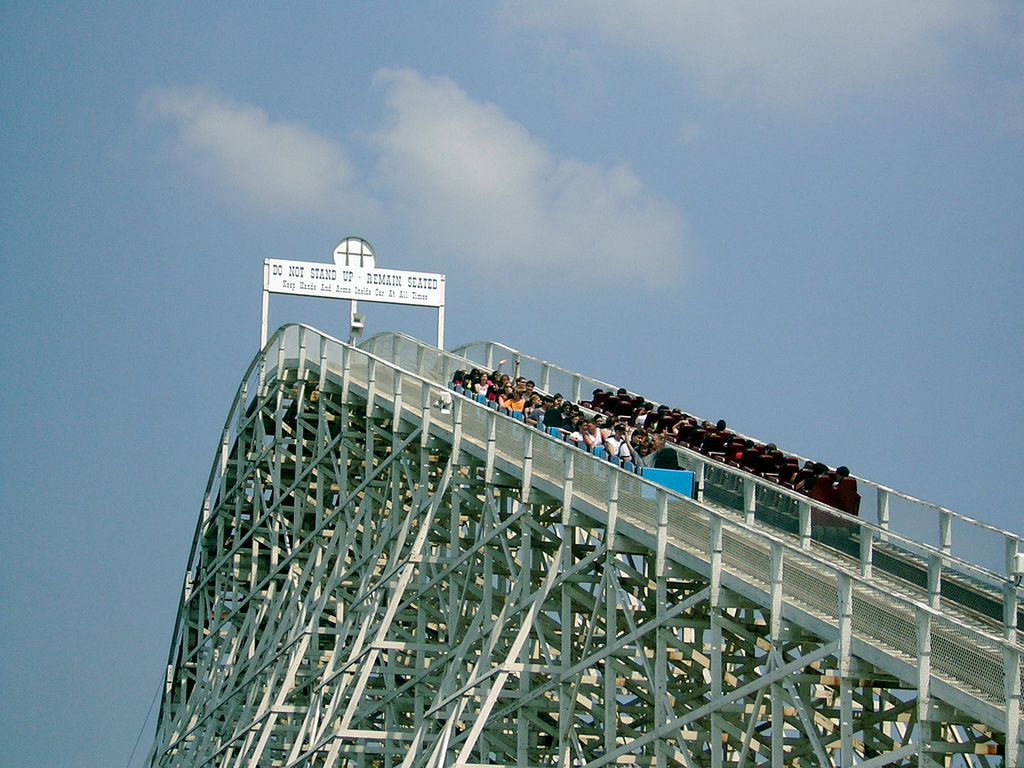 Rebel Yell roller coaster at Paramount's Kings Dominion.